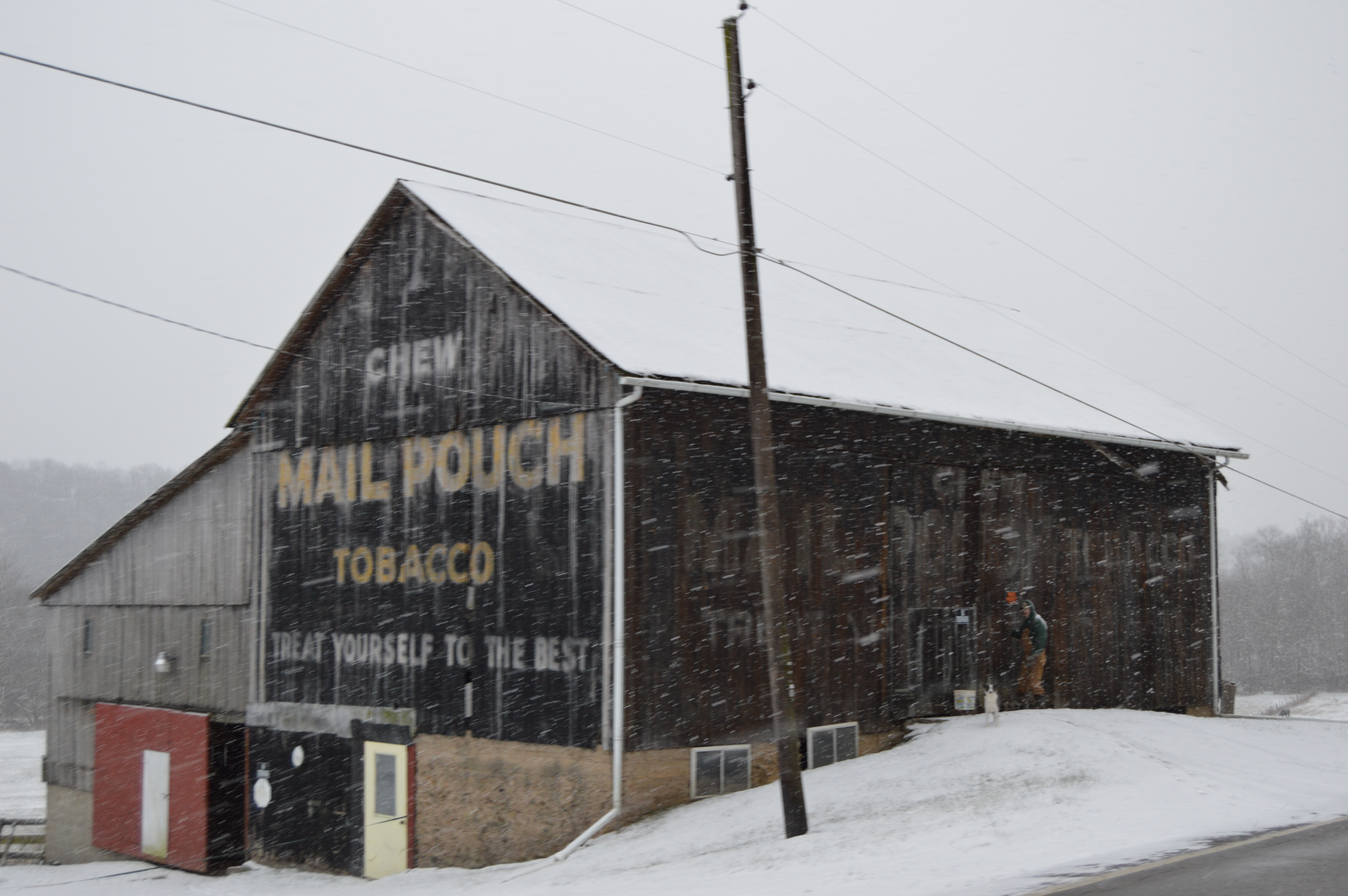 Front and southwestern side of a Mail Pouch Tobacco Barn located on State Route 821 southeast of Macksburg in Aurelius Township, Washington County, Ohio, United States.